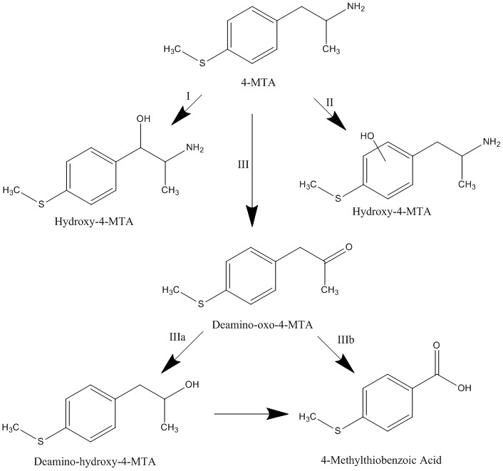 How 4-MTA is metabolized by rats